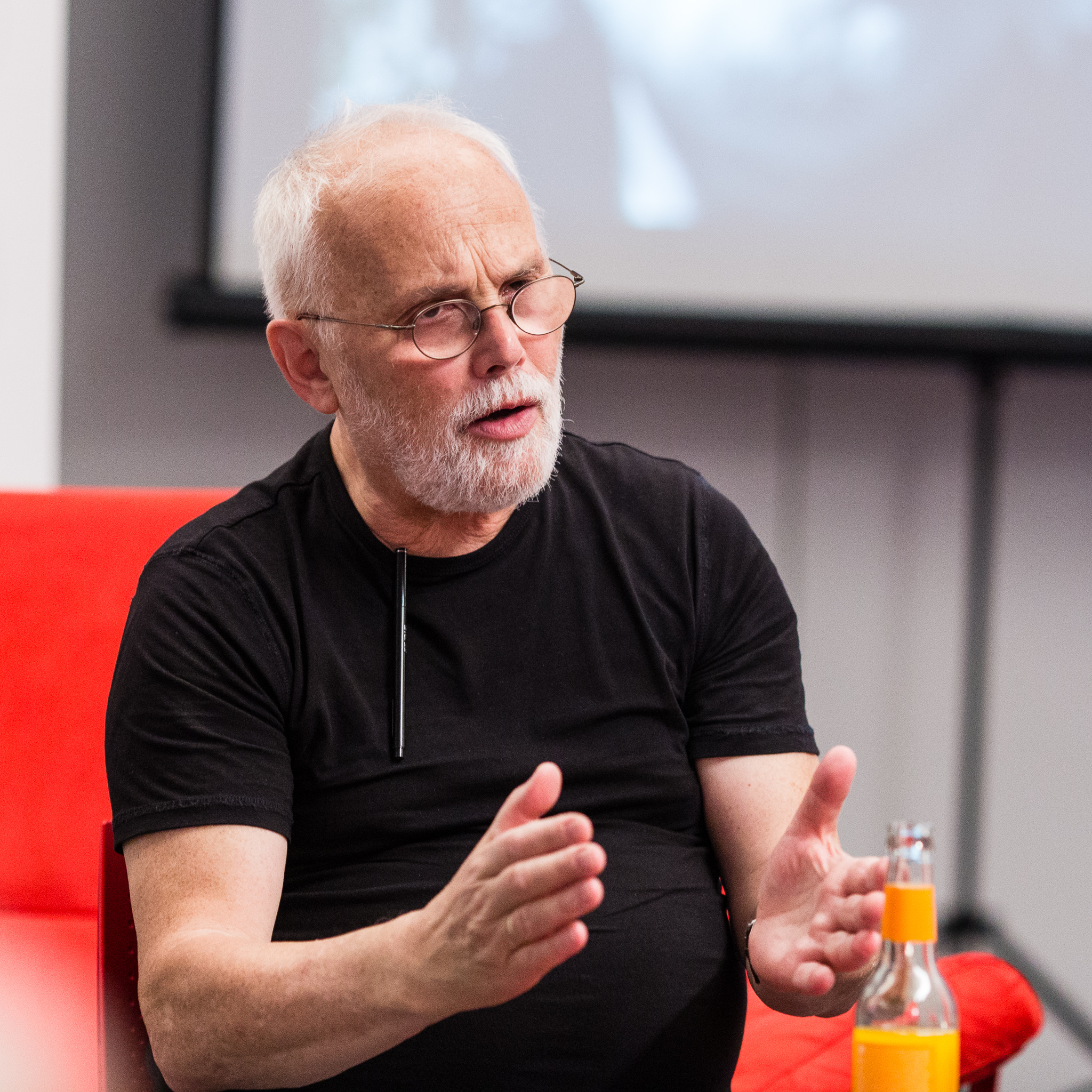 Jerzy Kronhold on Authors’ Reading Month 2018, Wrocław, Poland